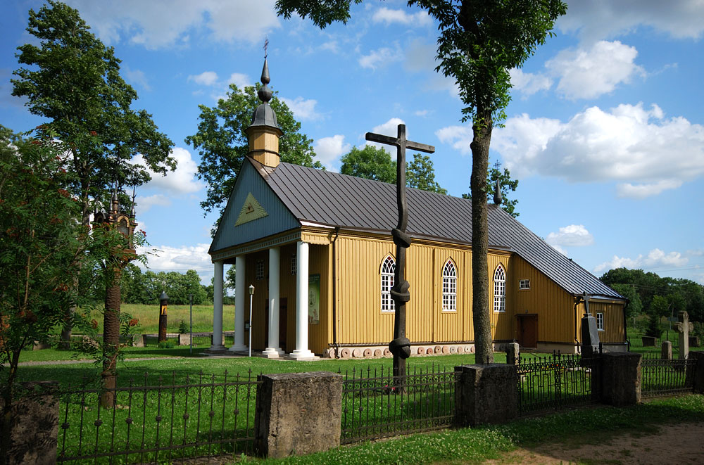 Church in Paberze, Lithuania